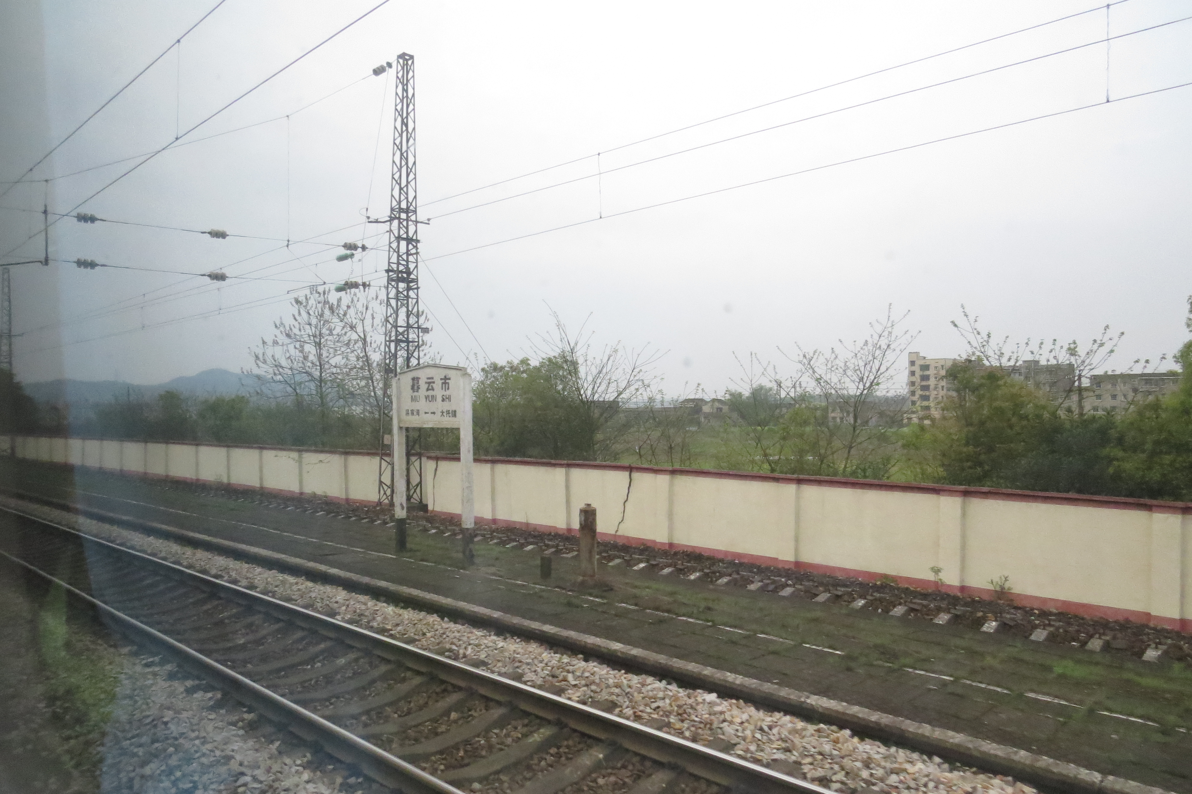 Taken from T253 en route from Changsha to Zhuzhou.